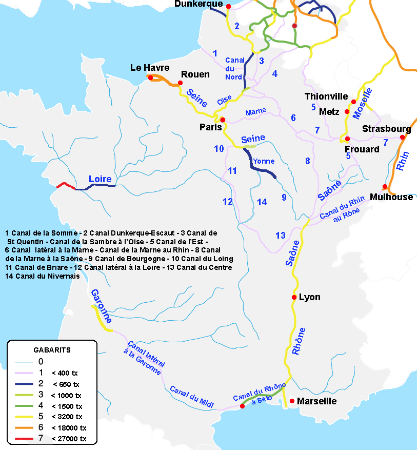 French waterways (rivers + canals), schematic drawing